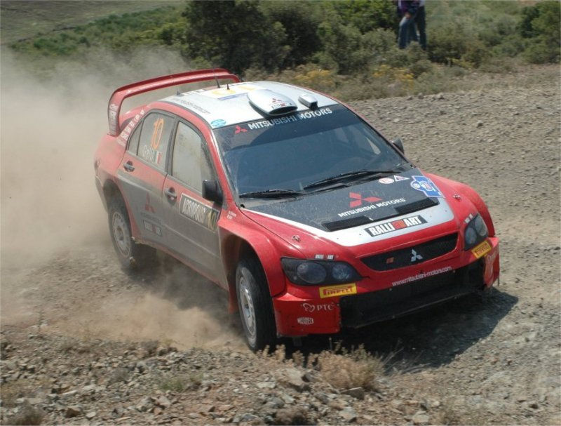 Gigi Galli driving a Mitsubishi Lancer WRC at the 2005 Acropolis Rally.